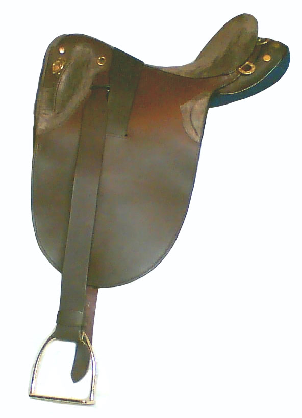 Australian stock saddle, side view